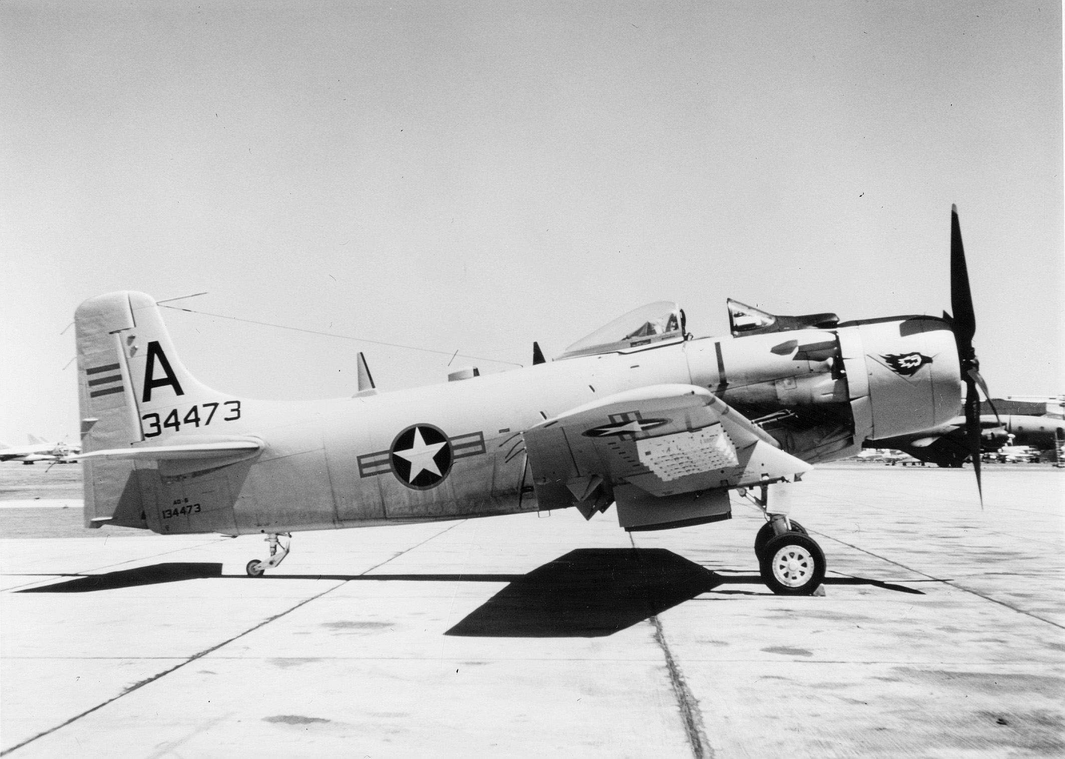 A Vietnamese Air Force (VNAF) Douglas AD-6 Skyraider (U.S. Navy BuNo 134473) at Naval Air Facility Litchfield Park, Arizona (USA).